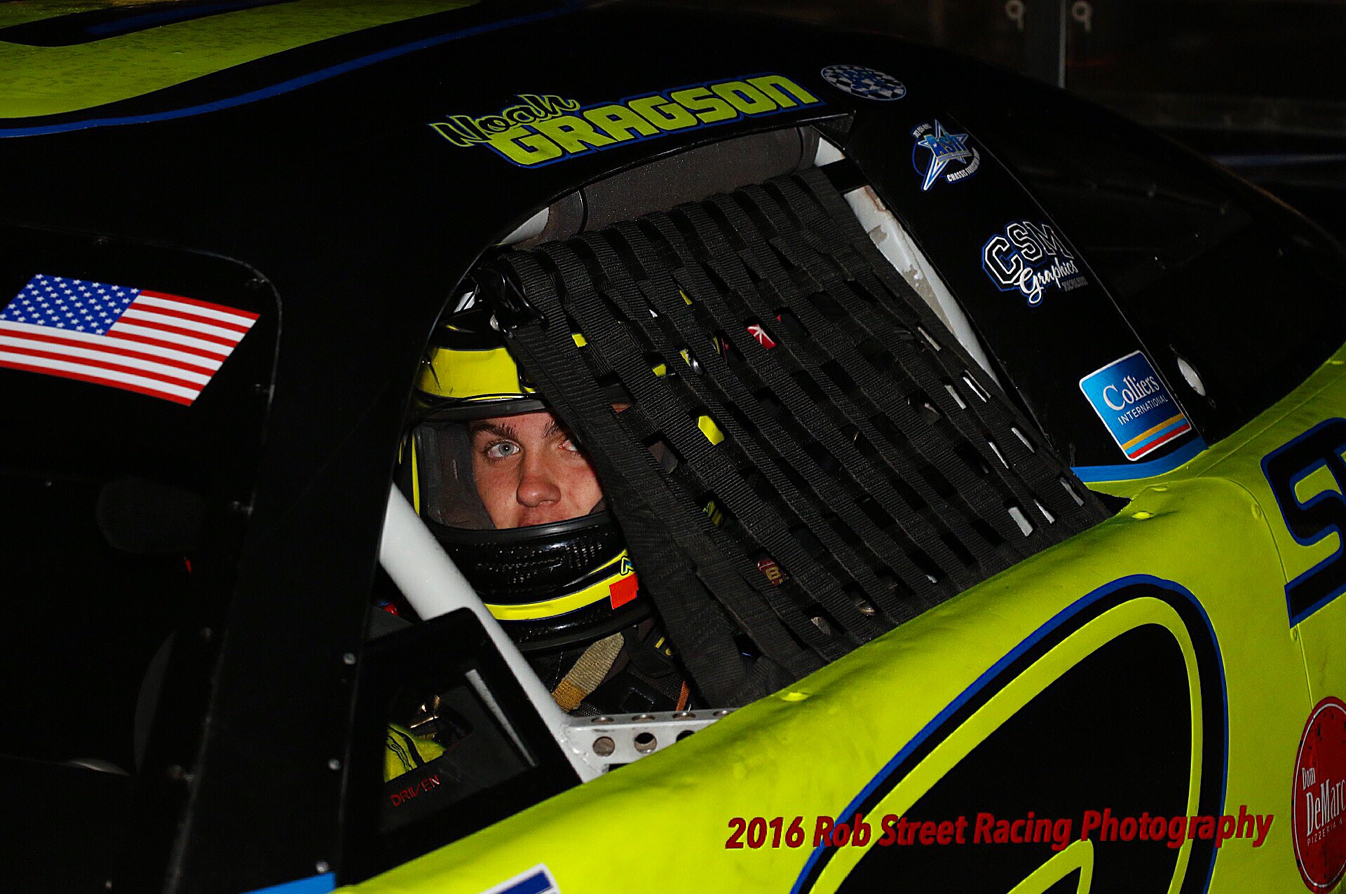 Noah Gragson-The Bullring at Las Vegas Motor Speedway-2016 Photo Credit: Rob Street